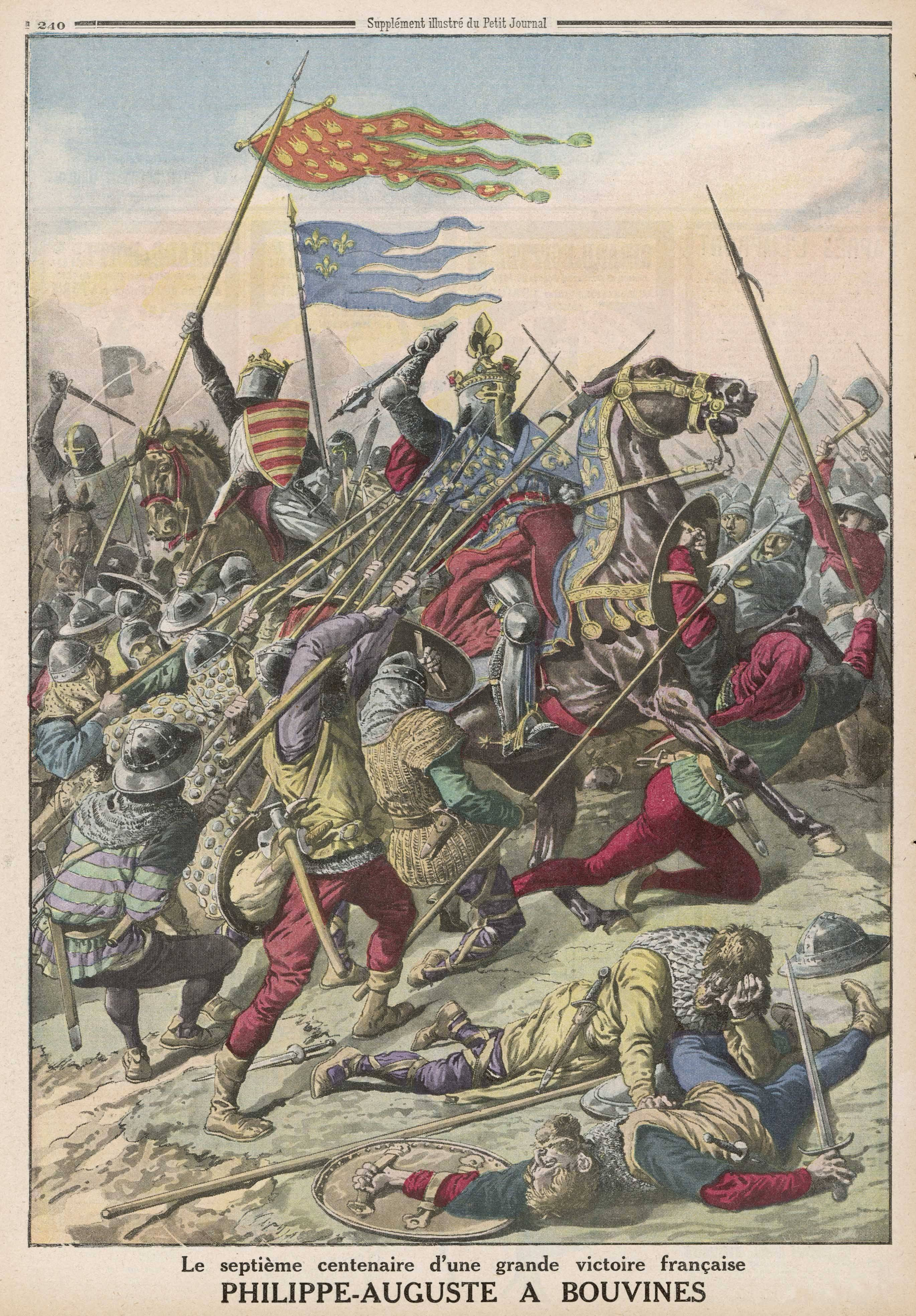 « Philippe-Auguste à Bouvines », illustration publiée dans le supplément illustré du Petit Journal, 26 juillet 1914.